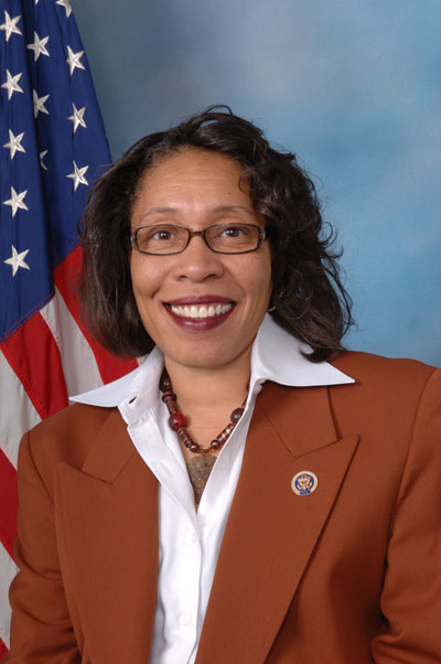 Marcia Fudge, member of the United States House of Representatives.